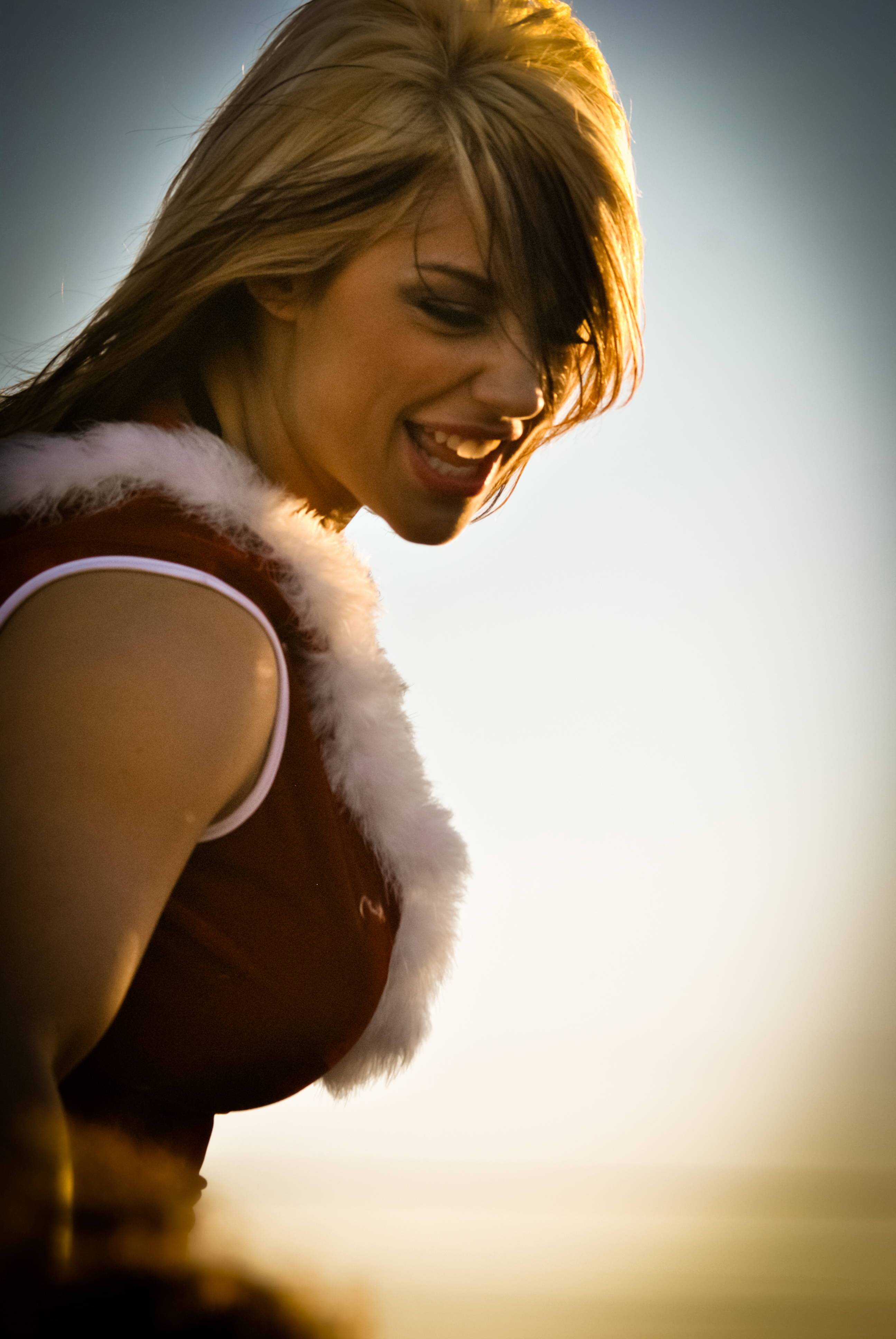 Kaitlyn at the 2010 Tribute to the Troops show in Fort Hood, Texas on December 11, 2010.